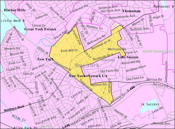 U.S. Census 2000 reference map for University Gardens, New York